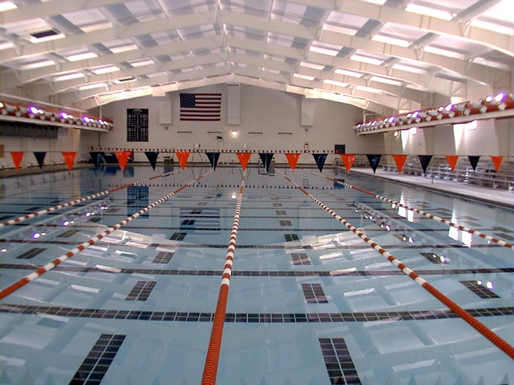 The Onishi-Davenport Aquatic Center, Hargrave Military Academy, Chatham, Virginia.